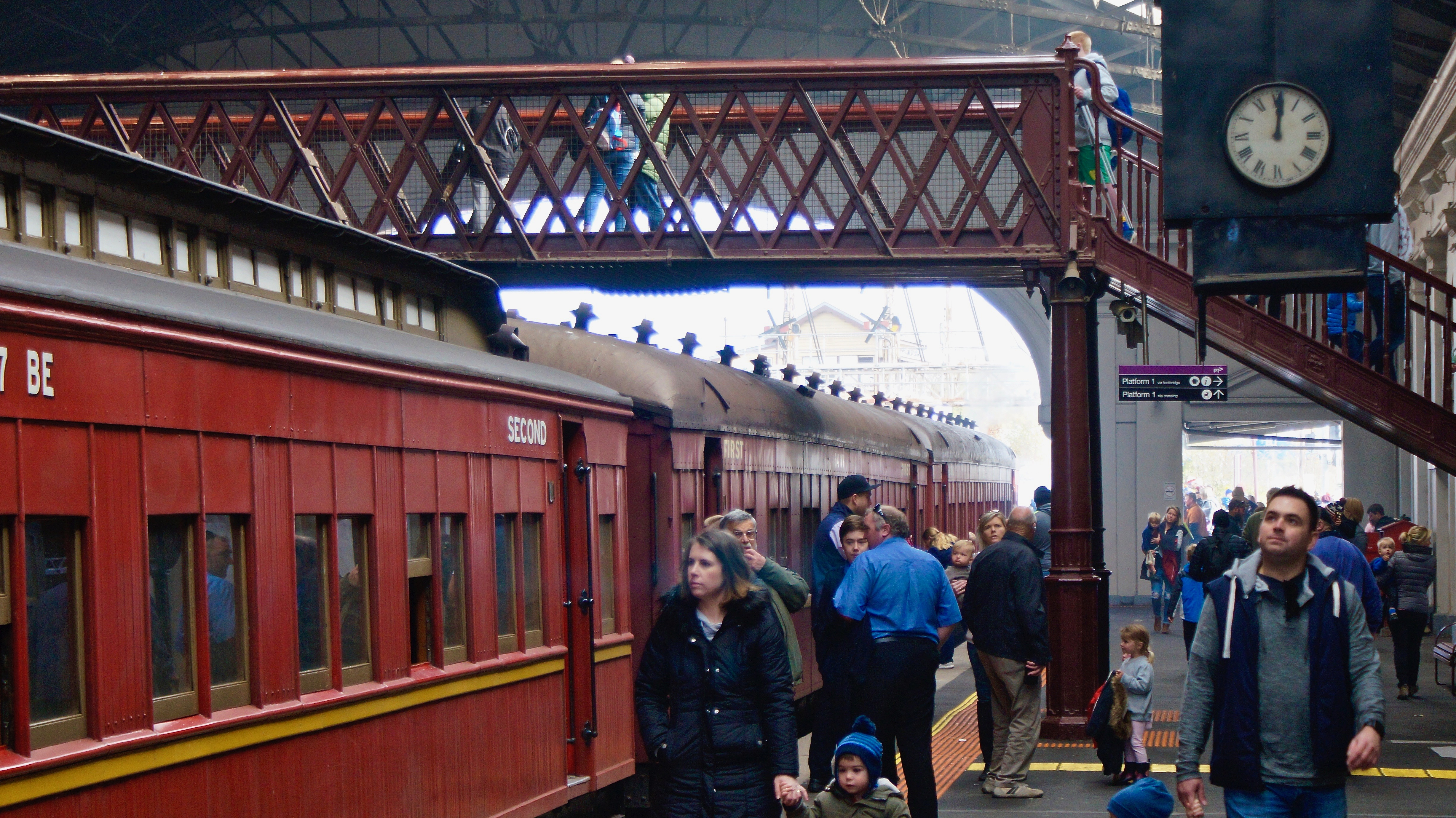 Platform Two at Ballarat Railway Station.